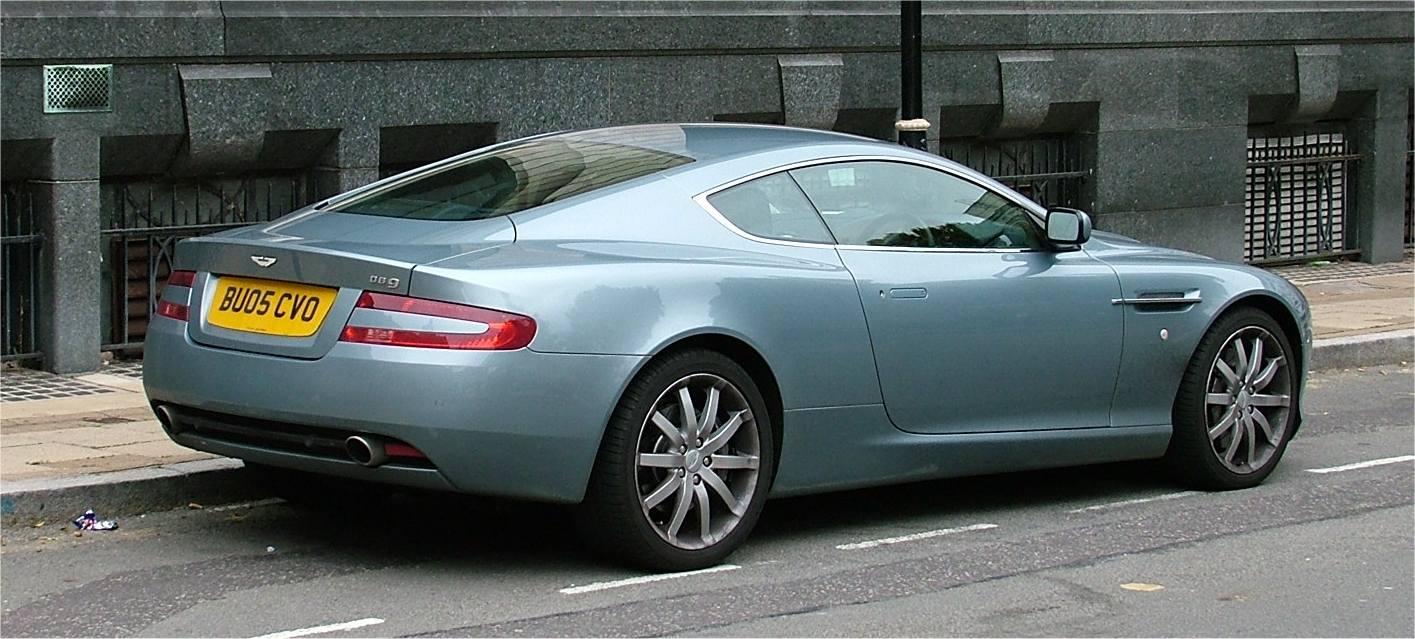 Aston Martin DB9 - Birmingham